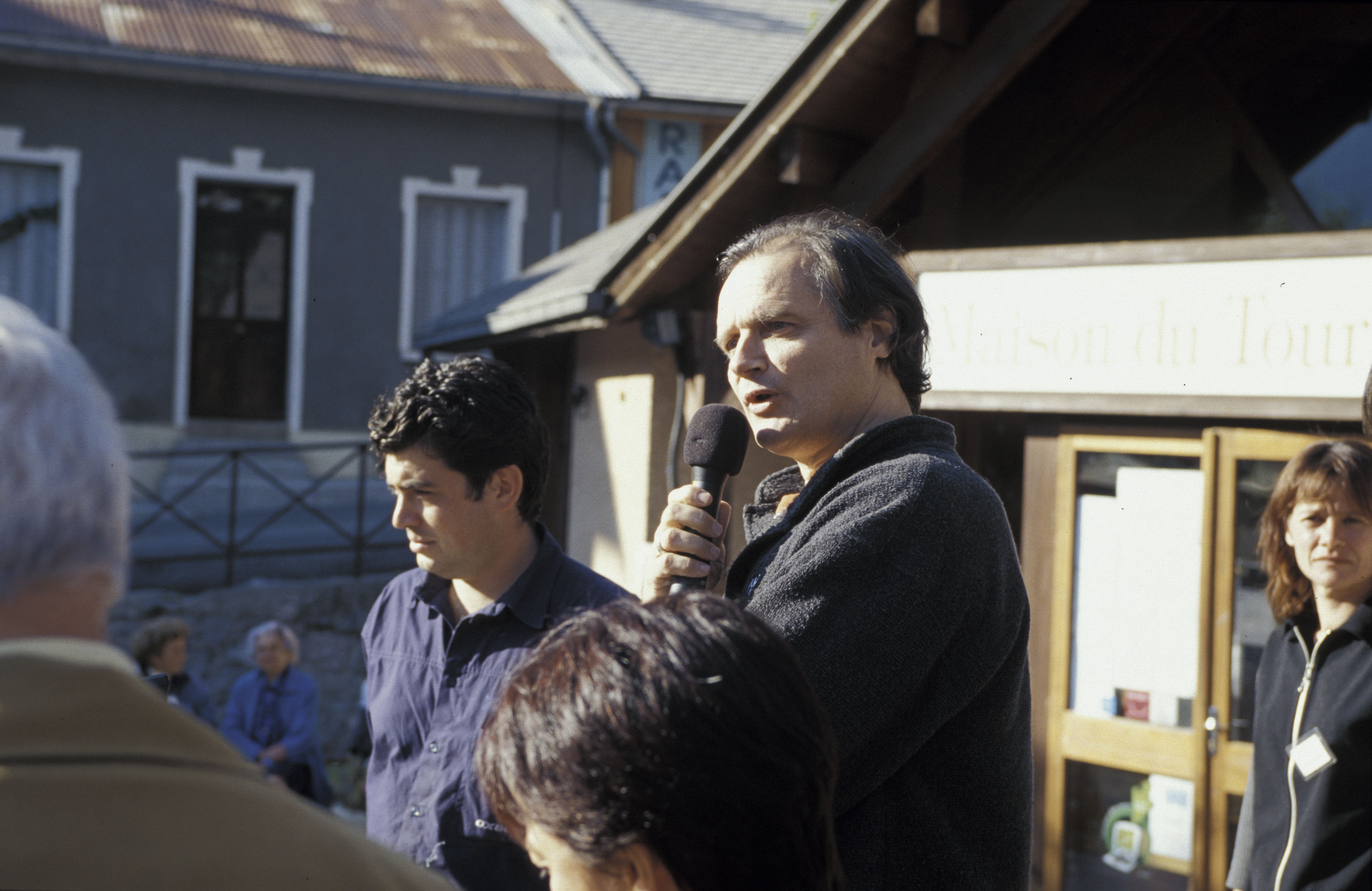 Pierre Bordage at the Fantastic Alpes 2002 festival in Guillestre (Hautes-Alpes).